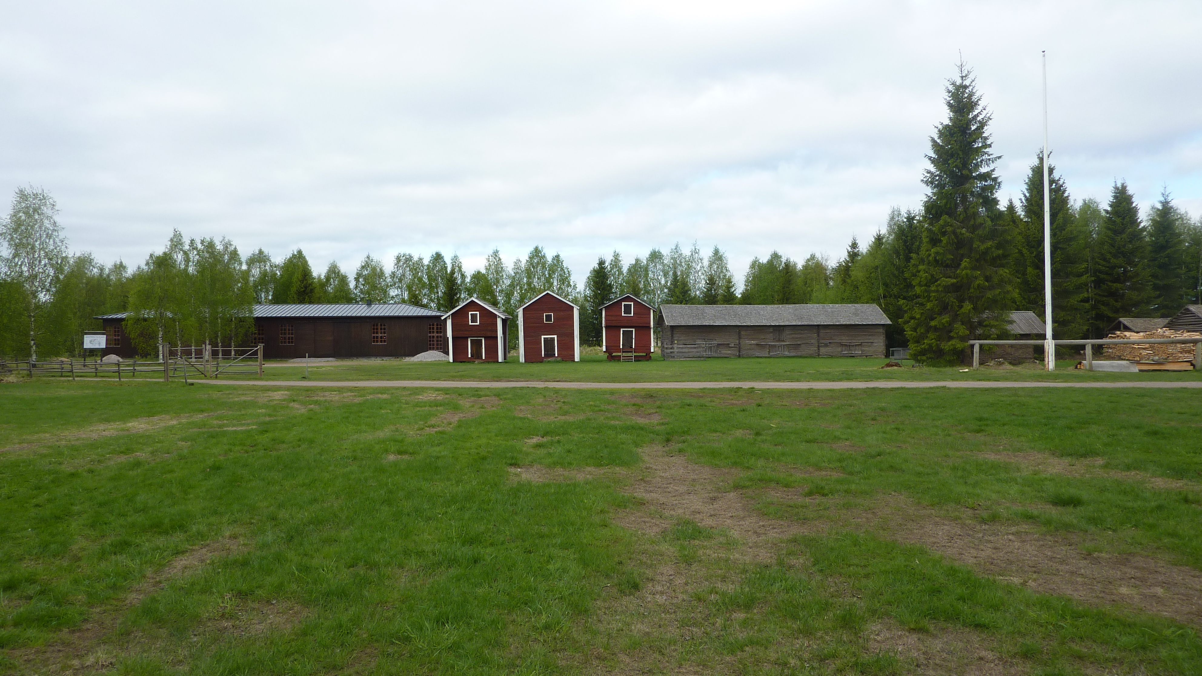 Local history museum of Tyrnävä